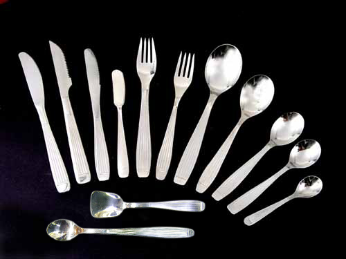 Cutlery manufactured in stainless steel for gastronomy